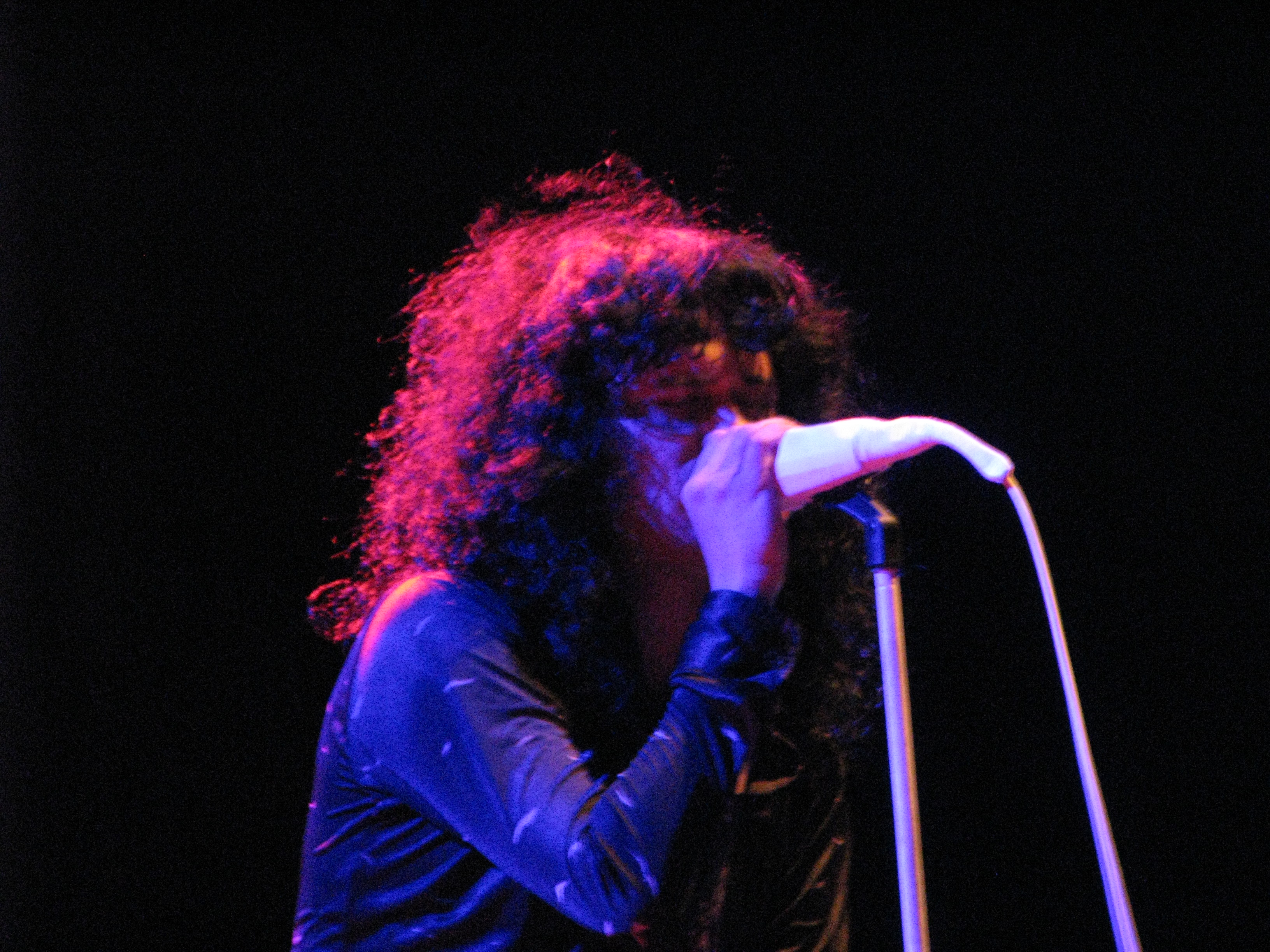 Cedric Bixler-Zavala, lead vocalist for the Mars Volta, performing at the Roy Wilkins Auditorium in St. Paul, MN.